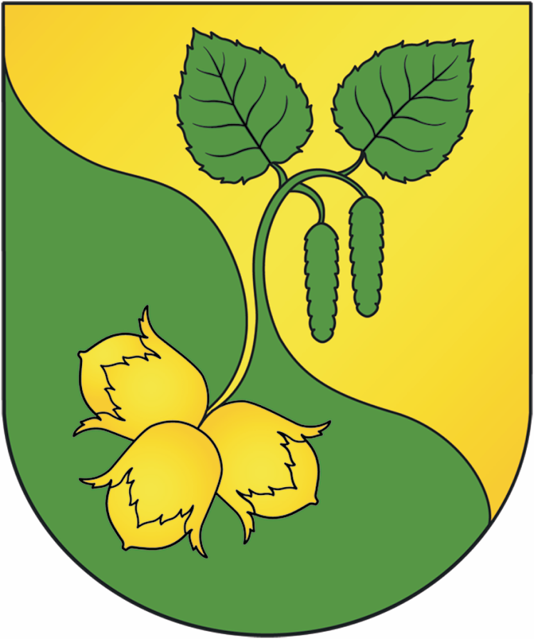 Coat of arms of Arechaŭsk